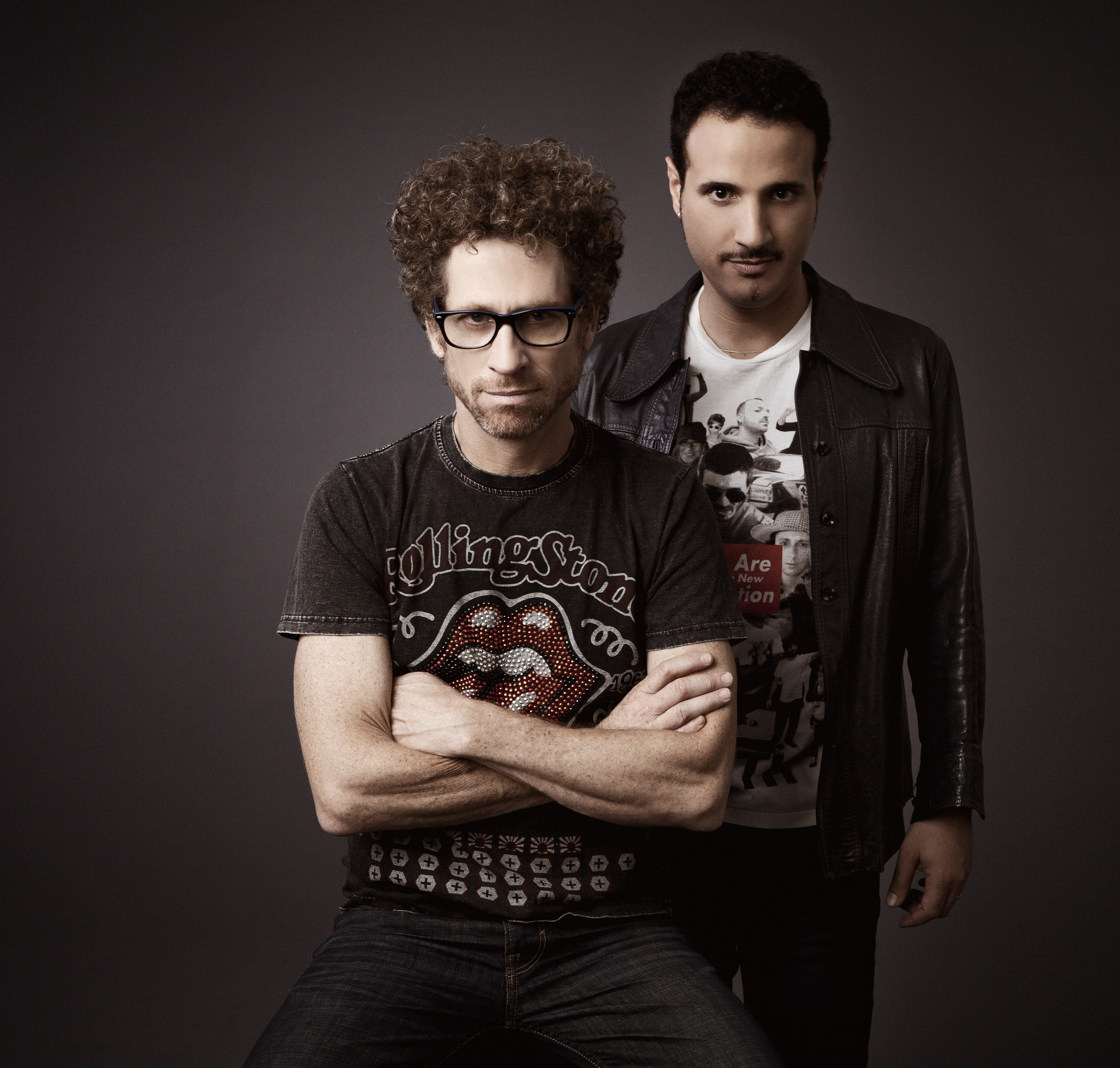 The project "Panasim" (the song "Hi Ha'akhat"): Musicians Yermi Kaplan & Eliran Levi